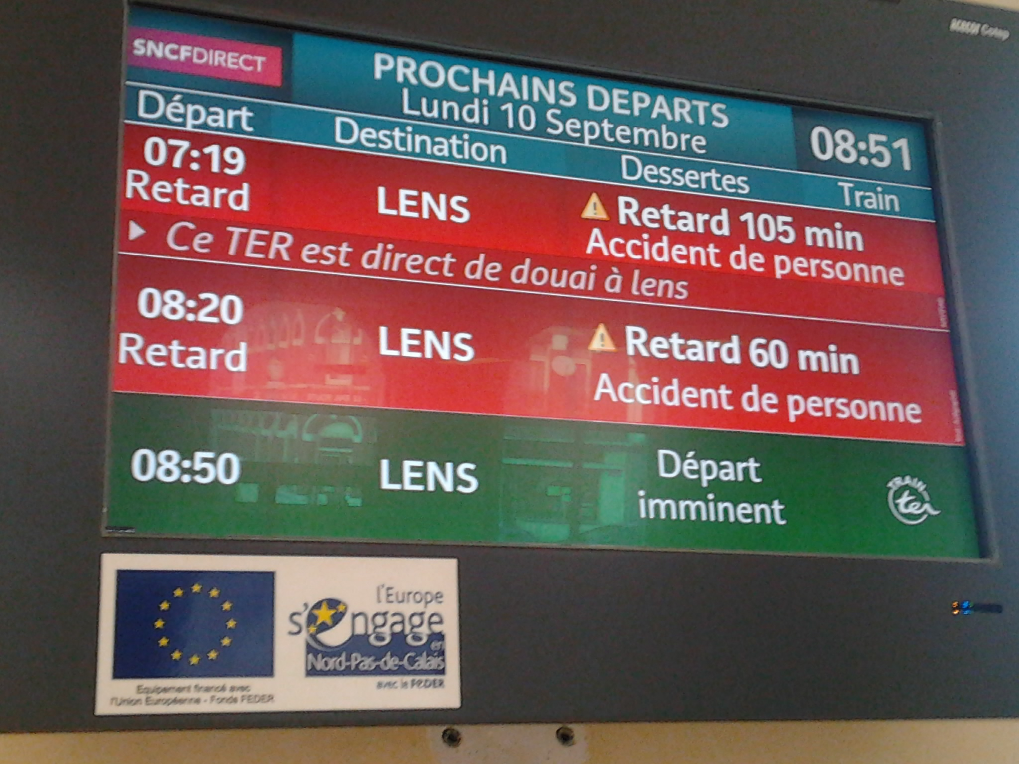 Information sign at Hénin-Beaumont railway station, France, indicating an accident involving injury to people.